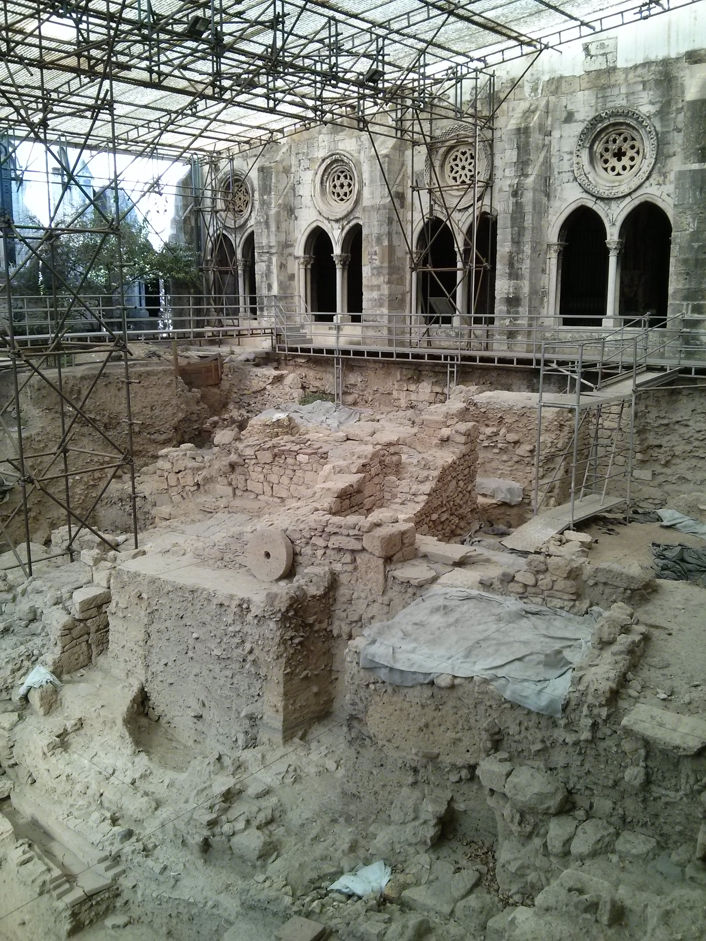 Excavation in the cloister of Lisbon Cathedral